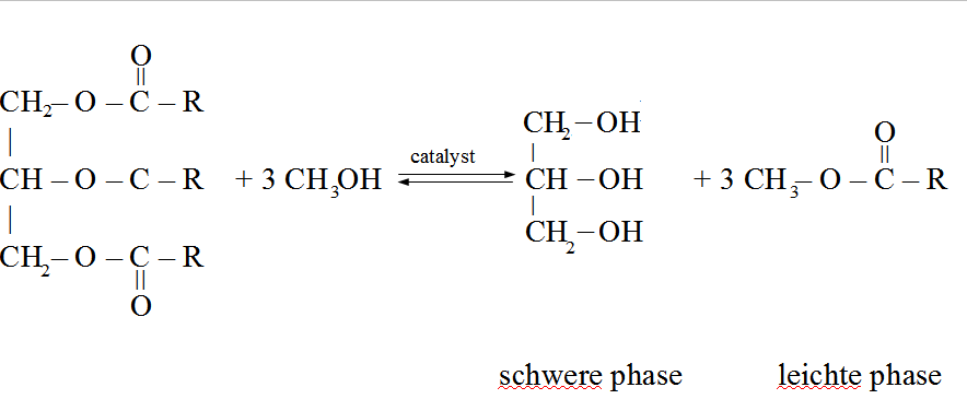 Reaction route in the transesterification of the triglyceride rapeseed oil 中文（香港）: 菜油甘油三酯之轉酯化反應